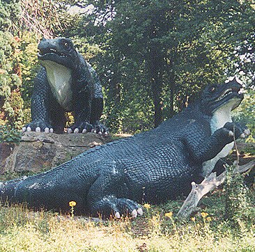 Iguanodons at Crystal Palace July 1995 photo - Cas Liber